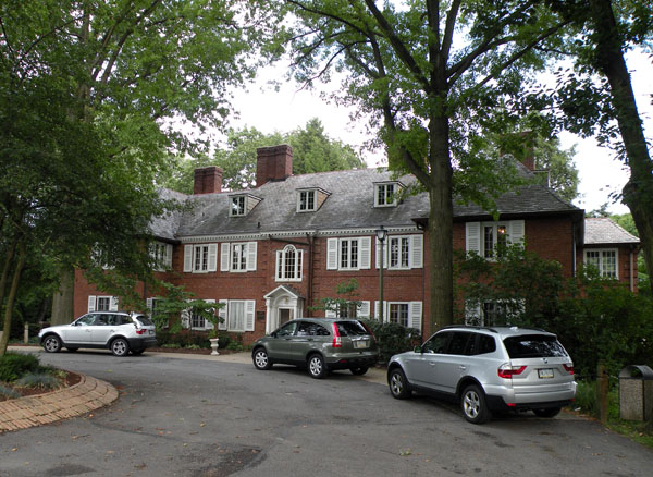 Picture of the house at Robin Hill located at 949 Thorn Run Road in Moon Township, Pennsylvania, on July 20, 2010. The area where the house is located is known as Robin Hill Park, and it includes about 200 acres, walking trails, an herb garden, a carriage house (now home of the Moon Area Senior Citizen's Center), a log house from the 1800s, and this twenty-four room Georgian-style house (which is now a community center). It was built in 1926, designed by architect Henry Gilchrist, and is on the List of Pittsburgh Landmarks recognized by the Pittsburgh History and Landmarks Foundation (PHLF). A sign on the front of the house says the following: "Robin Hill Park – Donated by Mary Spencer Nimick (1893–1971) – Having lived the last forty-five years of her life at Robin Hill with her husband Francis Bailey Nimick, and their six children and aware of the increasing population growth in the area in 1970, Mary Nimick graciously bequested through her will, the family's 53-acre property to Moon Township with the proviso that it be 'for perpetual use as a park or a wildlife refuge and for the enjoyment of the residents of said township and their friends. Said property to be known thereafter as Robin Hill Park or Robin Hill Wildlife Refuge.' Moon Township accepted her bequest in 1971, and together with the Robin Hill Associates, has worked to add additional acreage to the Park and to create a popular community center."